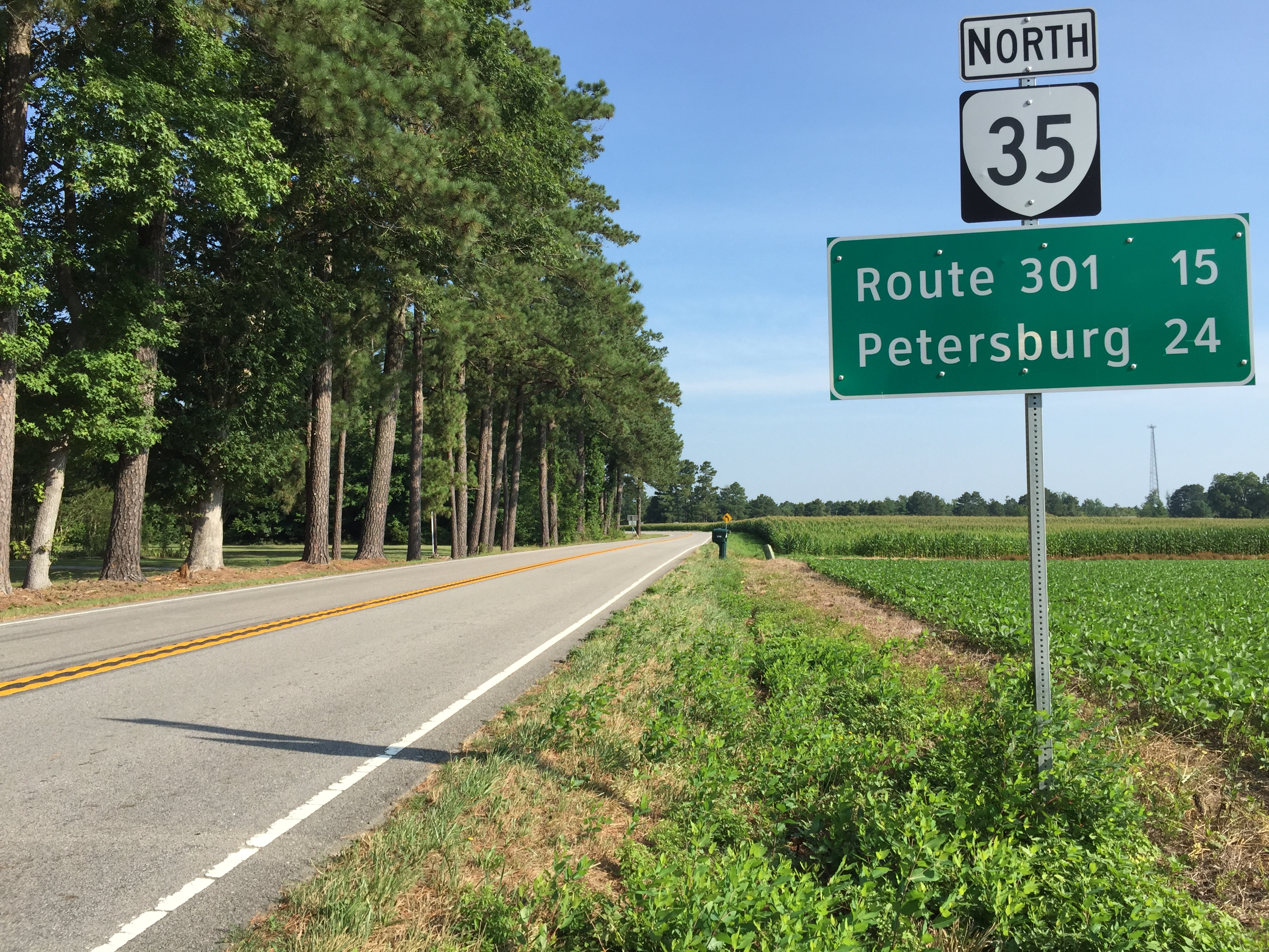 View north along Virginia State Route 35 (Jerusalem Plank Road) at Virginia State Route 40 (Sussex Drive) in Homeville, Sussex County, Virginia